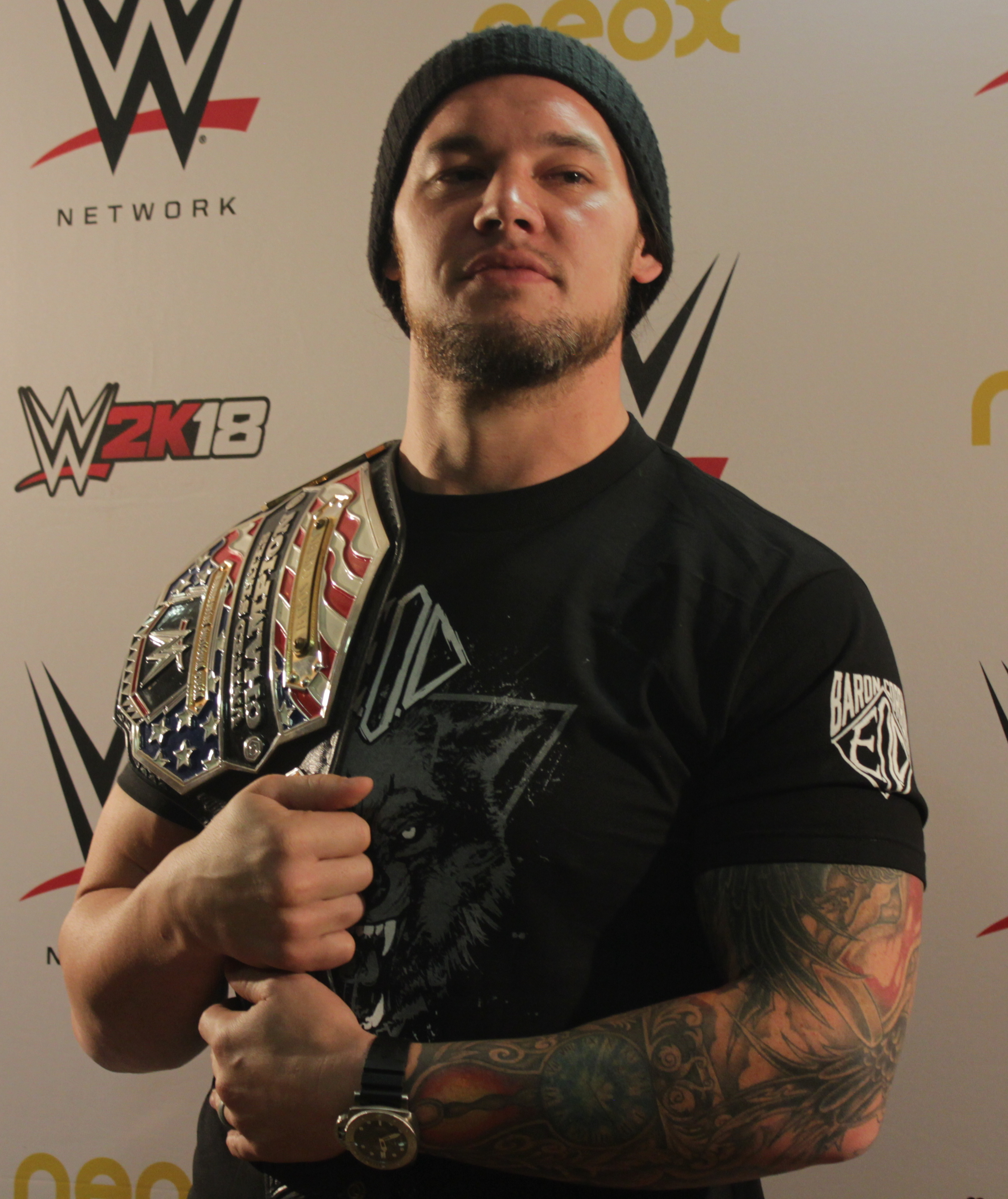 Baron Corbin as the USA Champion during a press conference